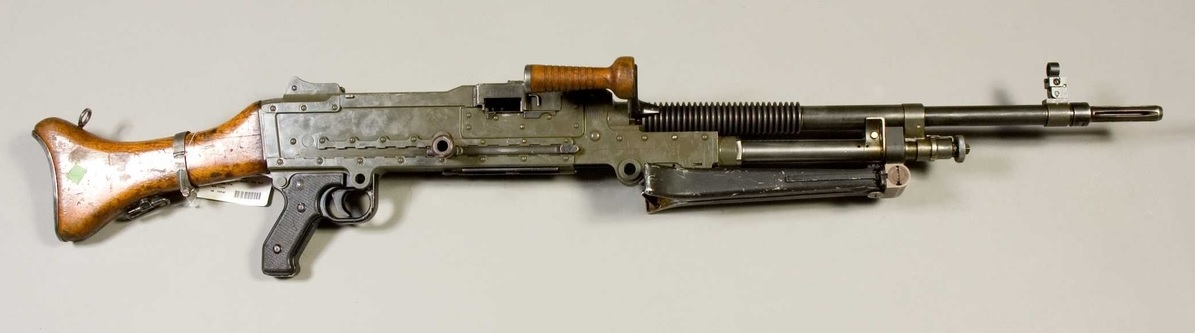 The Kulspruta 58B (Ksp 58B) machine gun, chambered in 7.62 mm NATO, is a Swedish version of the FN MAG. This particular machine gun was used in trials with the new 7.62 mm barrel. Photo from the Swedish Army Museum collections.